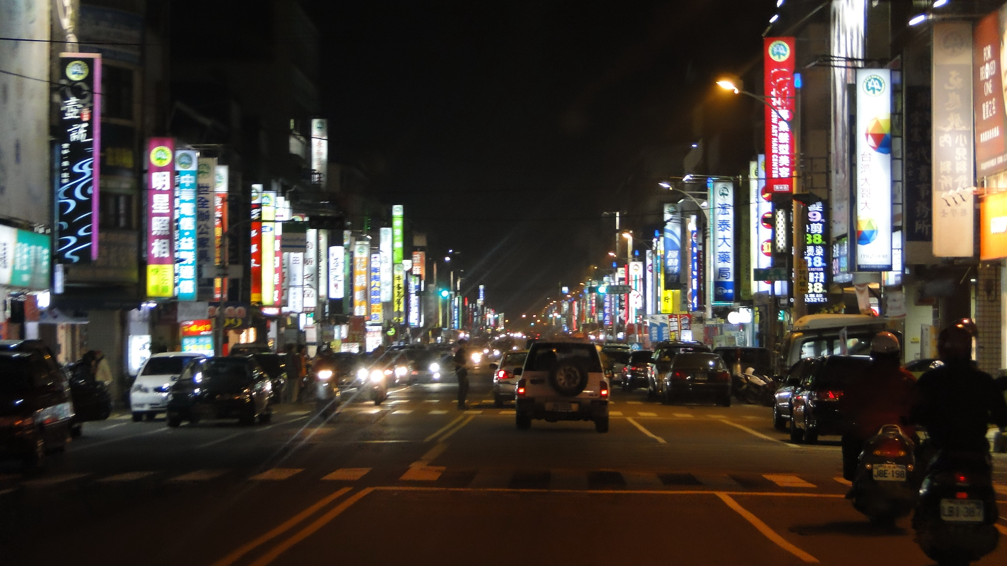 ZhongZheng Rd.,WuFeng,Taichung,TAIWAN.